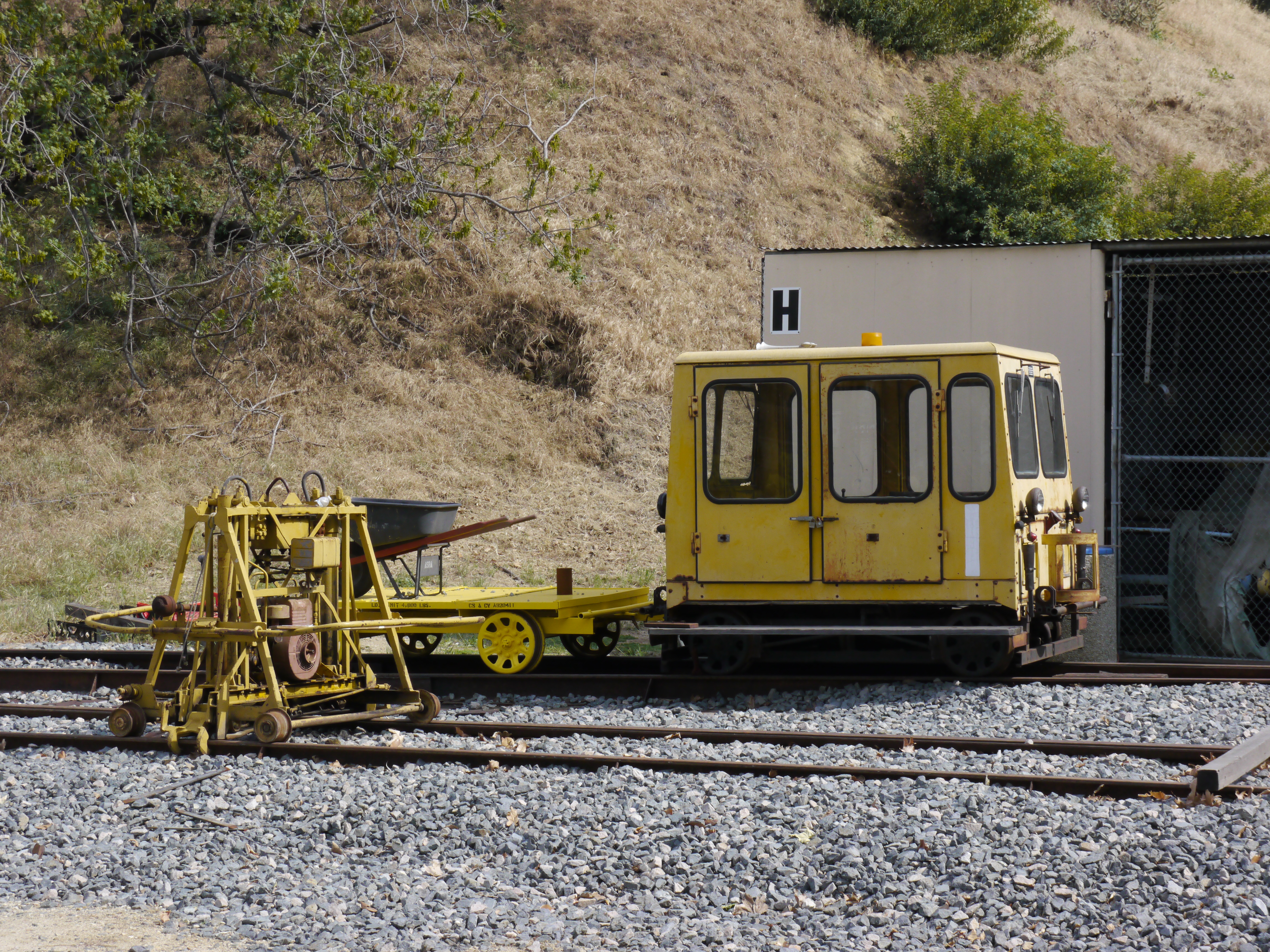 USA 2012 0241 - Los Angeles - Travel Town